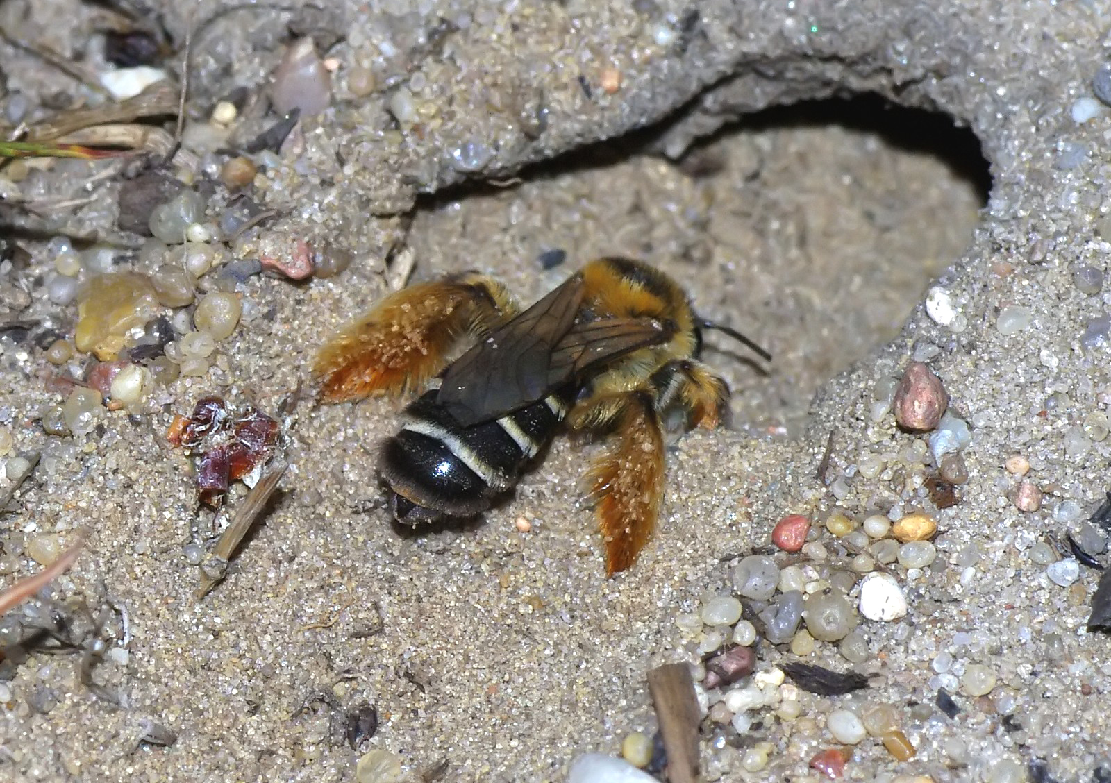 A female specimen of the solitary bee Dasypoda hirtipes (Syn.: D. altercator), digging in the sand for building a nest.